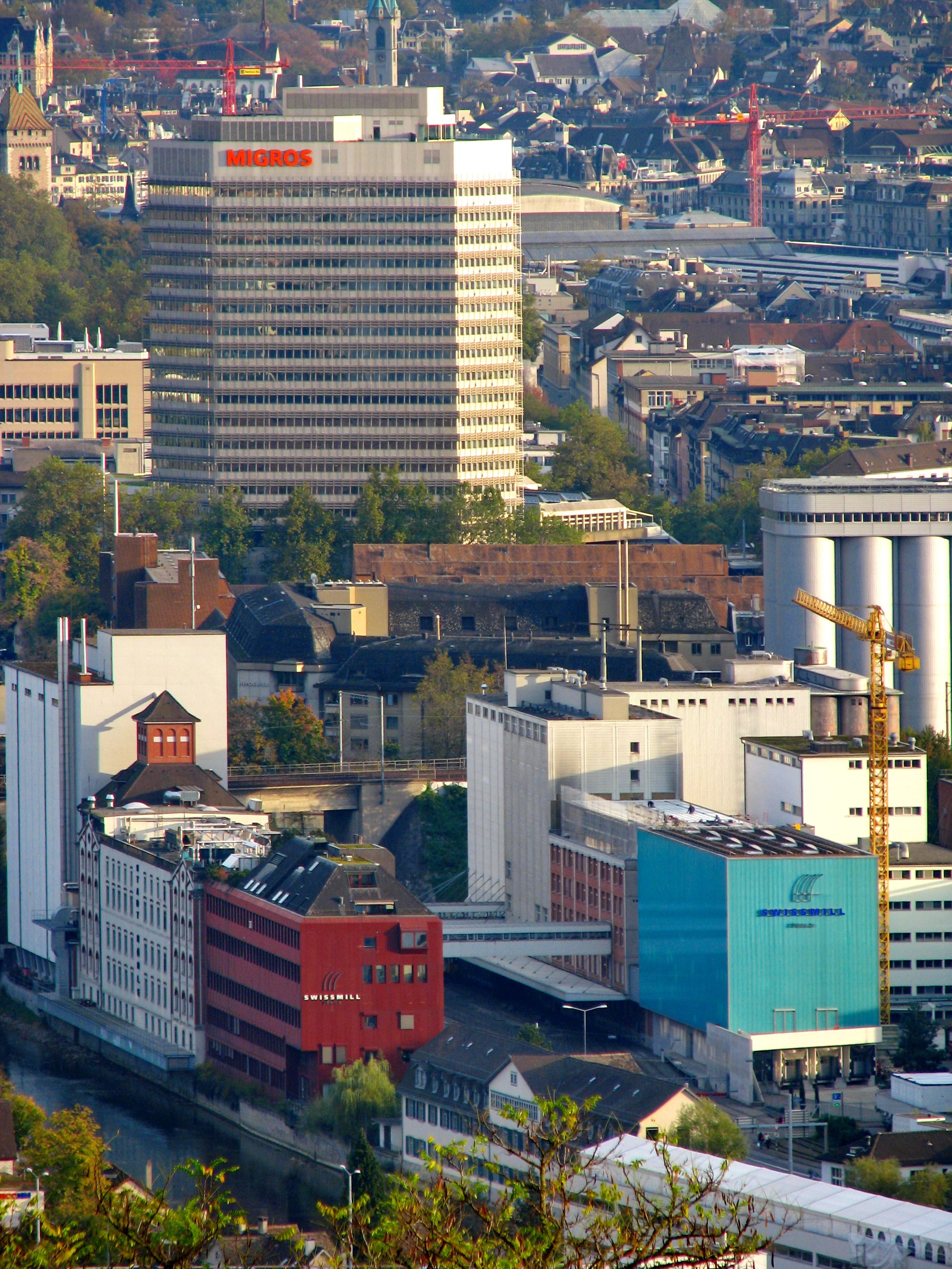 Zürich : Industriequartier, Migros at Limmatplatz in the center, at the left side Limmat river, seen from Waidberg hill